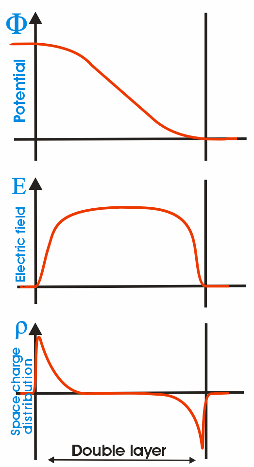 Double layer characteristics showing the potential, electric field and space charge distribution across the layer. (After L.P. Block, "A double layer review" (1978) [1]) Produced by Ian Tresman Automatically converted to PNG The PNG crusade bot automatically converted this image to the more efficient PNG format. The image was previously uploaded as "Double-layer-characteristics.gif". Previous file history 11:20:23, 16 May 2006 . . Iantresman (Talk Licensing